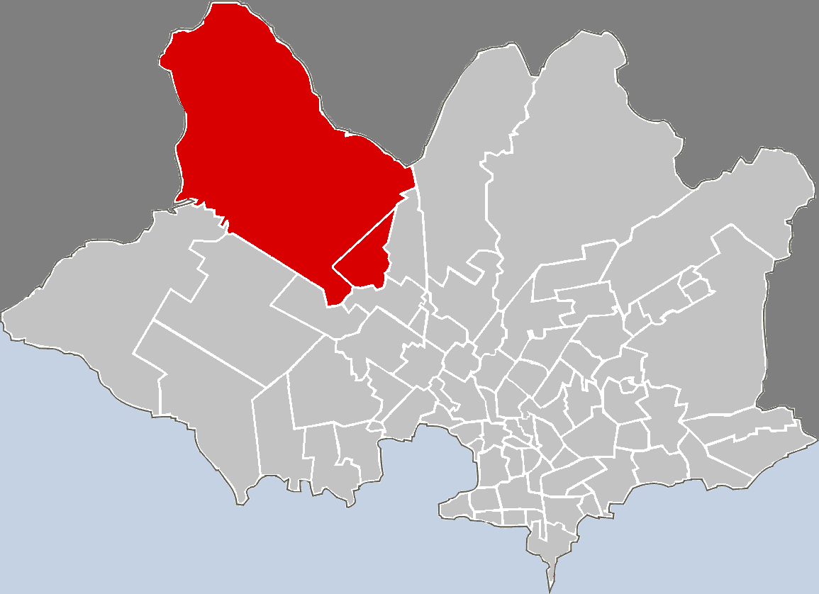 Map highlighting the given barrio in Montevideo.